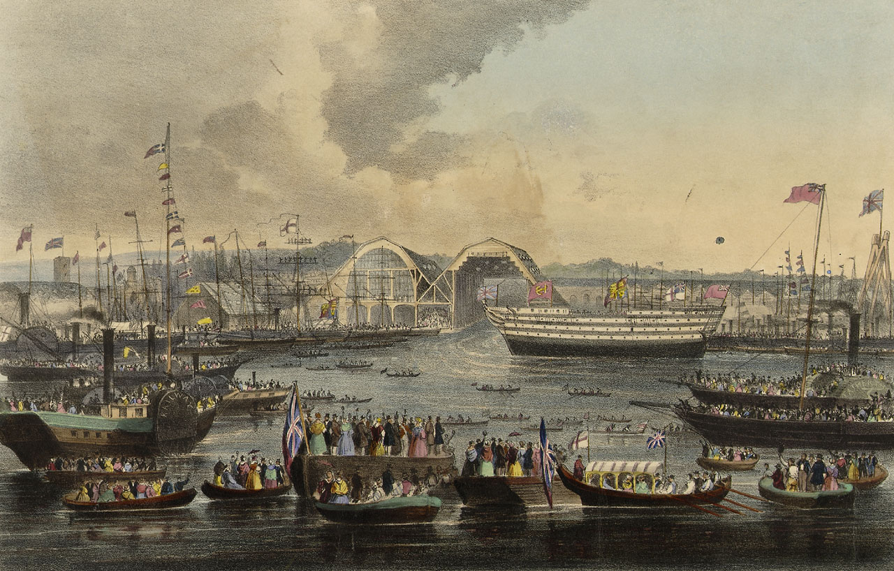 The launch of HMS Trafalgar, 120 guns. At Woolwich June 21st 1841 Hand-coloured. The Royal Dockyard at Woolwich was an important centre for naval shipbuilding from the reign of Henry VIII until its closure in 1869. Ship launches were a popular public spectacle and attracted large crowds. The 120 gun first rate 'Trafalgar' was launched at Woolwich Royal Dockyard in June 1841. She had a displacement of 2694 tons and during the Crimean War took part in the bombardment of Sebastopol in 1854. The launch of HMS Trafalgar, 120 guns. At Woolwich June 21st 1841 [1]